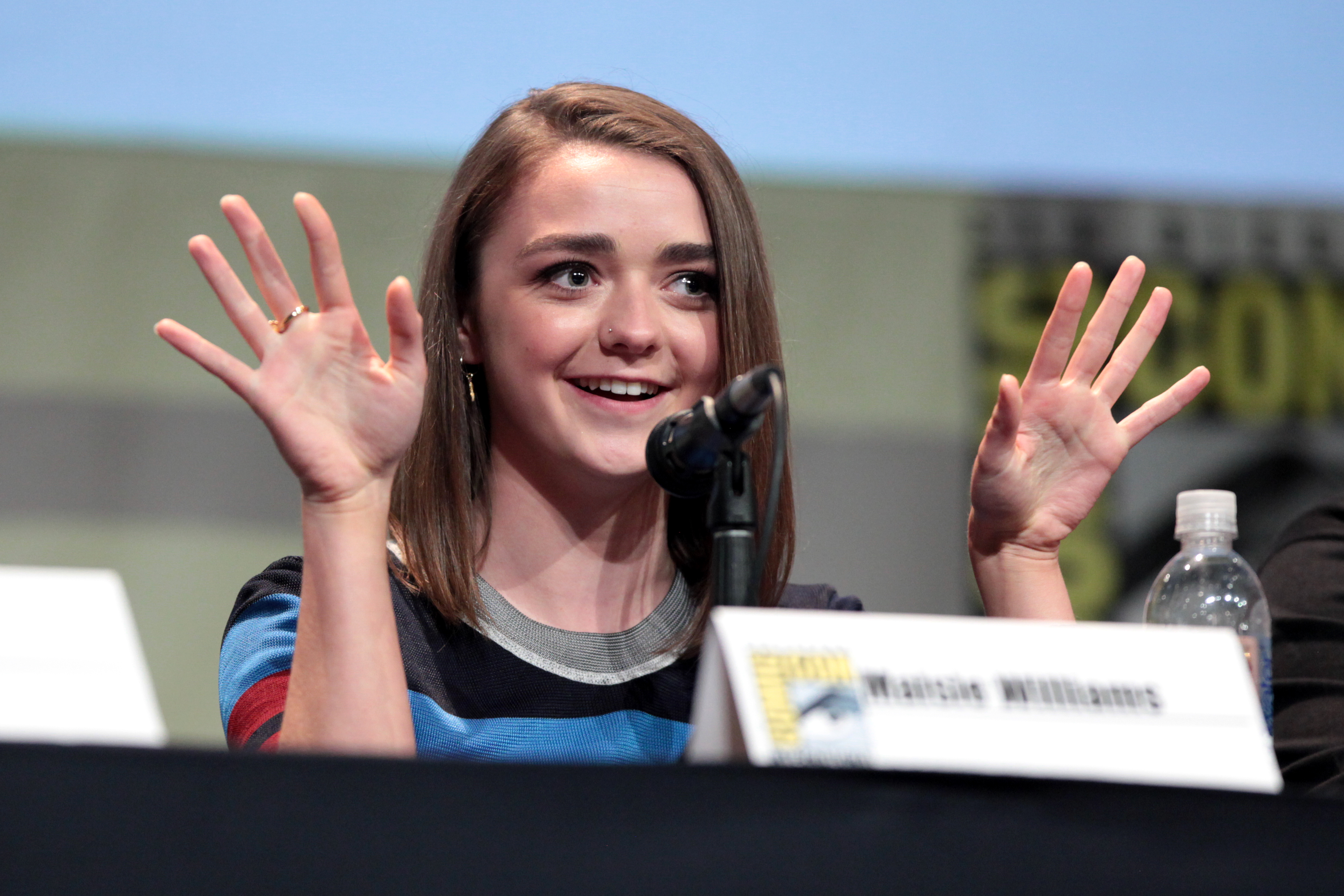 Maisie Williams speaking at the 2015 San Diego Comic Con International, for "Game of Thrones", at the San Diego Convention Center in San Diego, California.